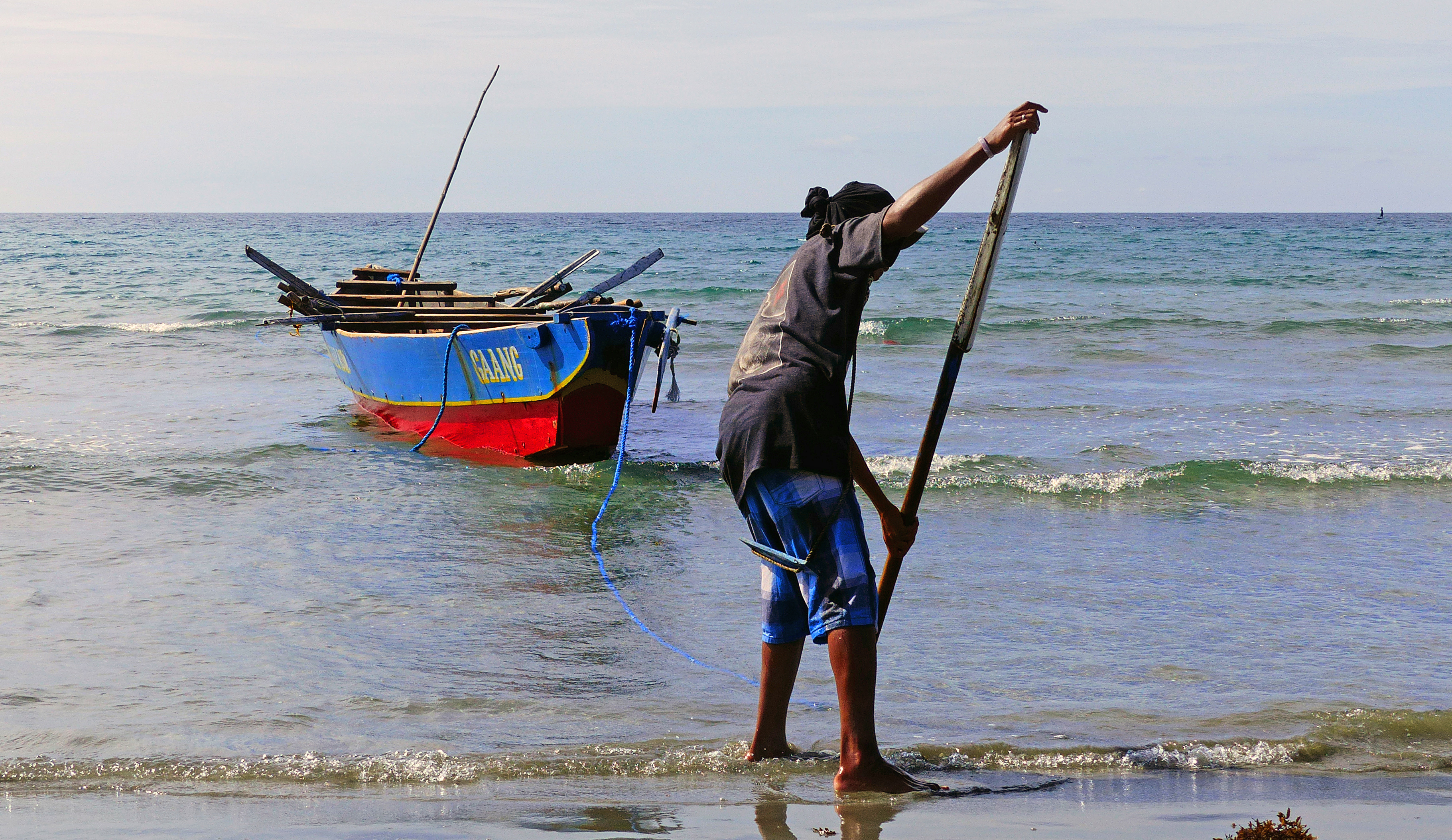 Currimao Municipality in Ilocos Norte, Philippines is a lazy seaside town with a most unusual feature lining it’s long stretch of beach – a string of sharp coral formations that jut out of the sea during low tide. They give the beach a ‘fang-y’ look and thus the name Pangil Beach.